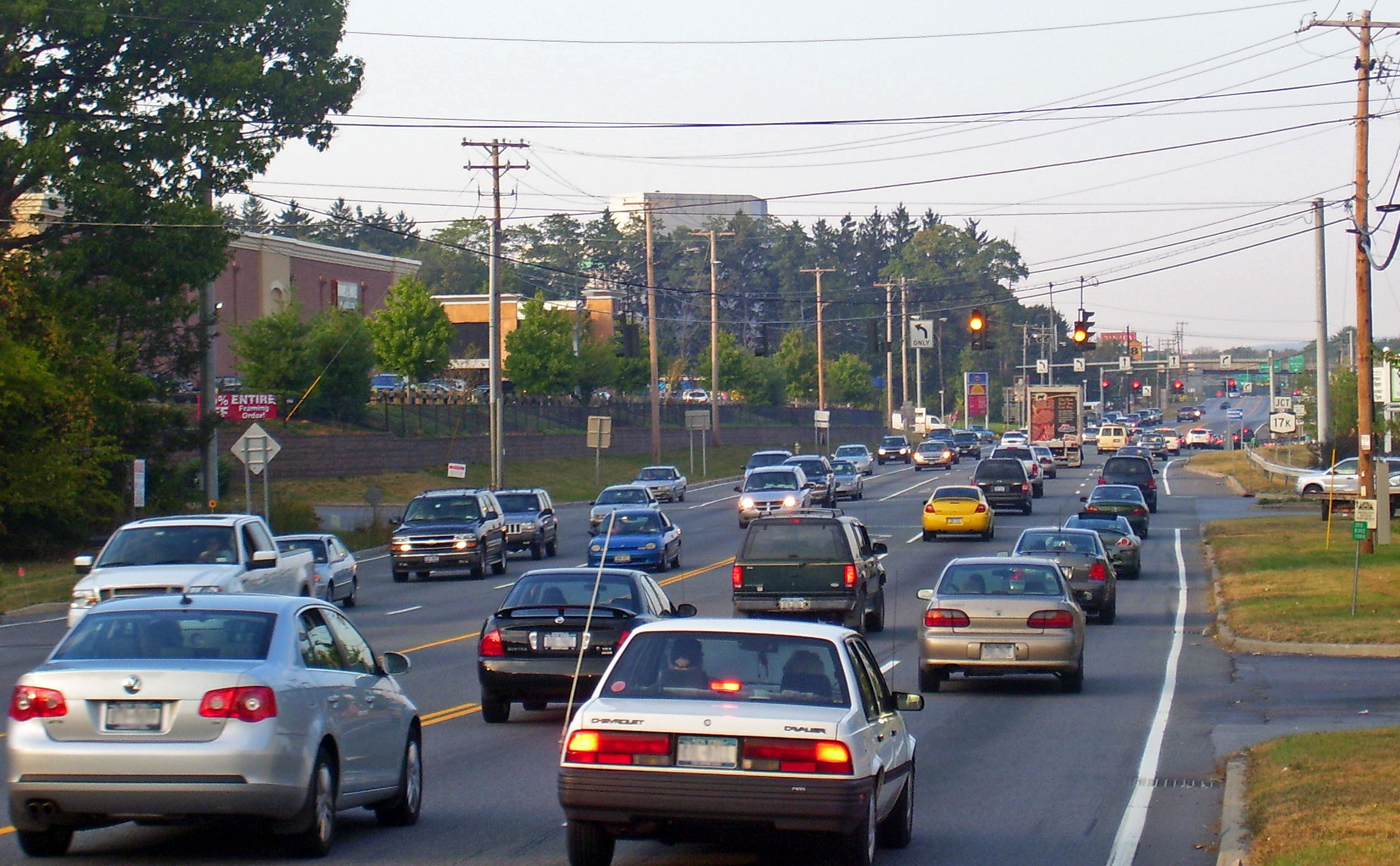 Looking north along NY 300 into junction with NY 17K during afternoon rush hour in the Town of Newburgh, NY, USA.